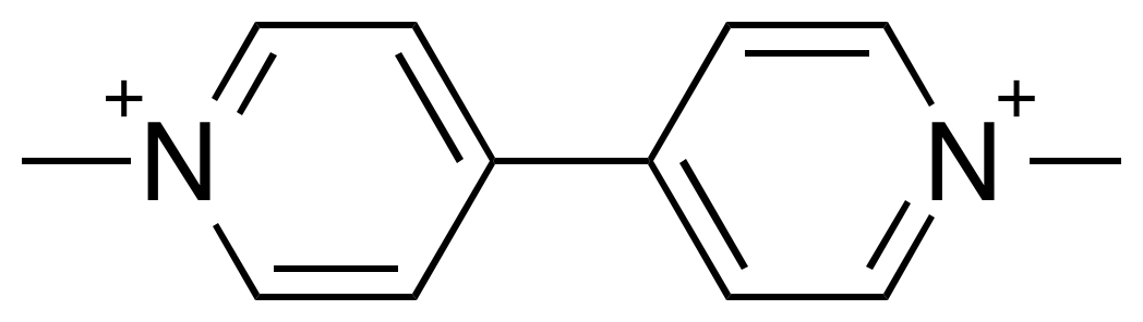 Viologen compound, created by rogper 18 februari 2004 kl.13.42 (CET).